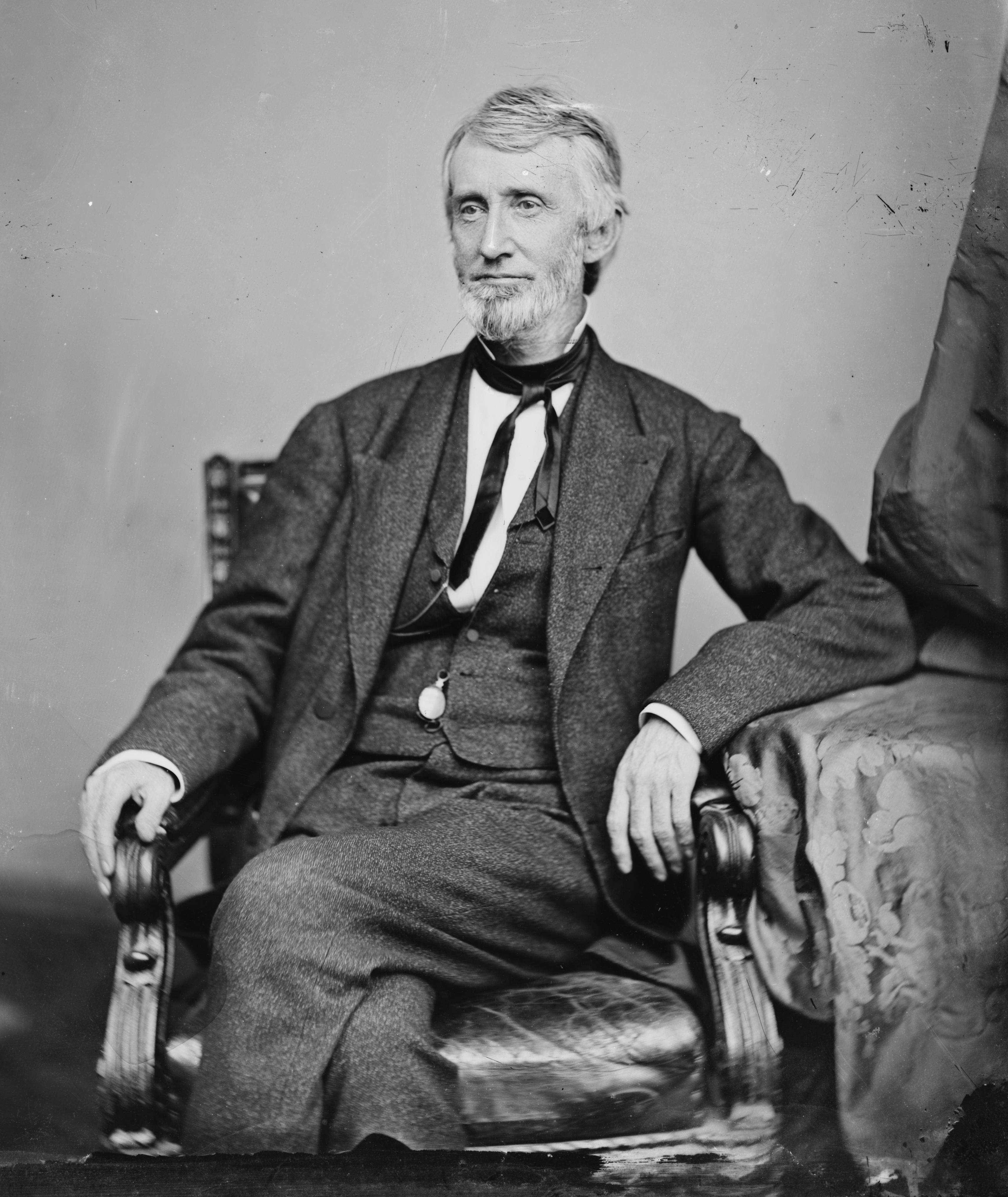 J. Hyatt Smith. Library of Congress description: "Hon. John Hyatt Smith of N.Y."